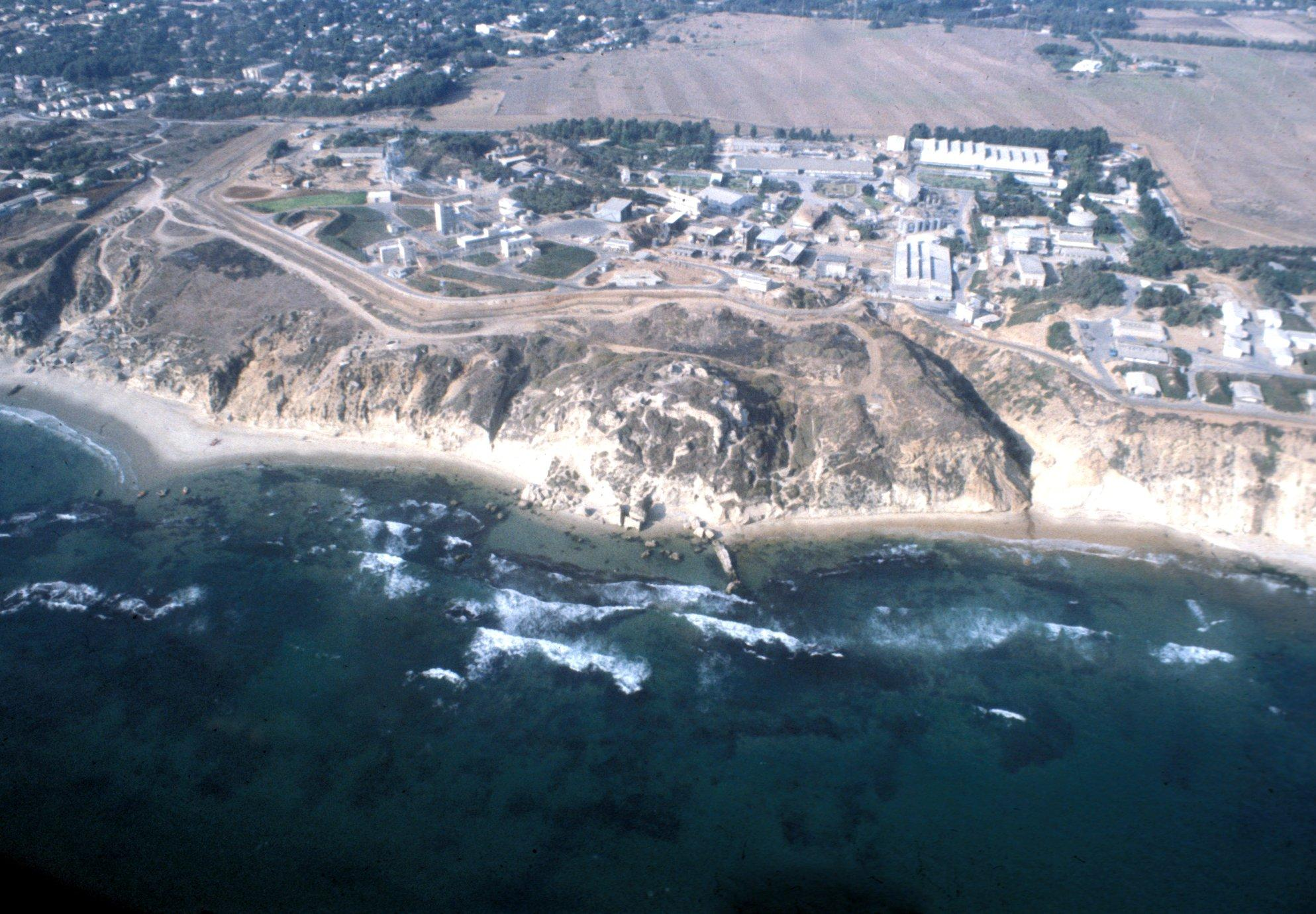 Unknown